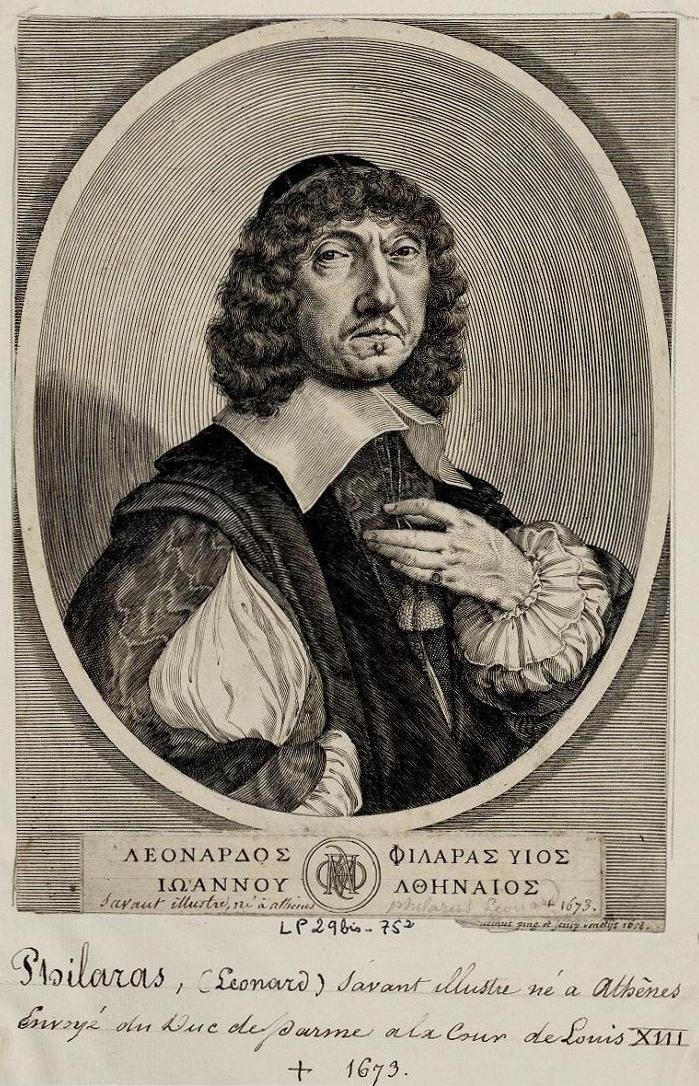 LEONARD PHILARAS (Λεονάρδος Φιλάρας, Leonardos Philaras) also known as VILLERET (c. 1595-1673) Greek scholar, Politician and Advisor to the French court.